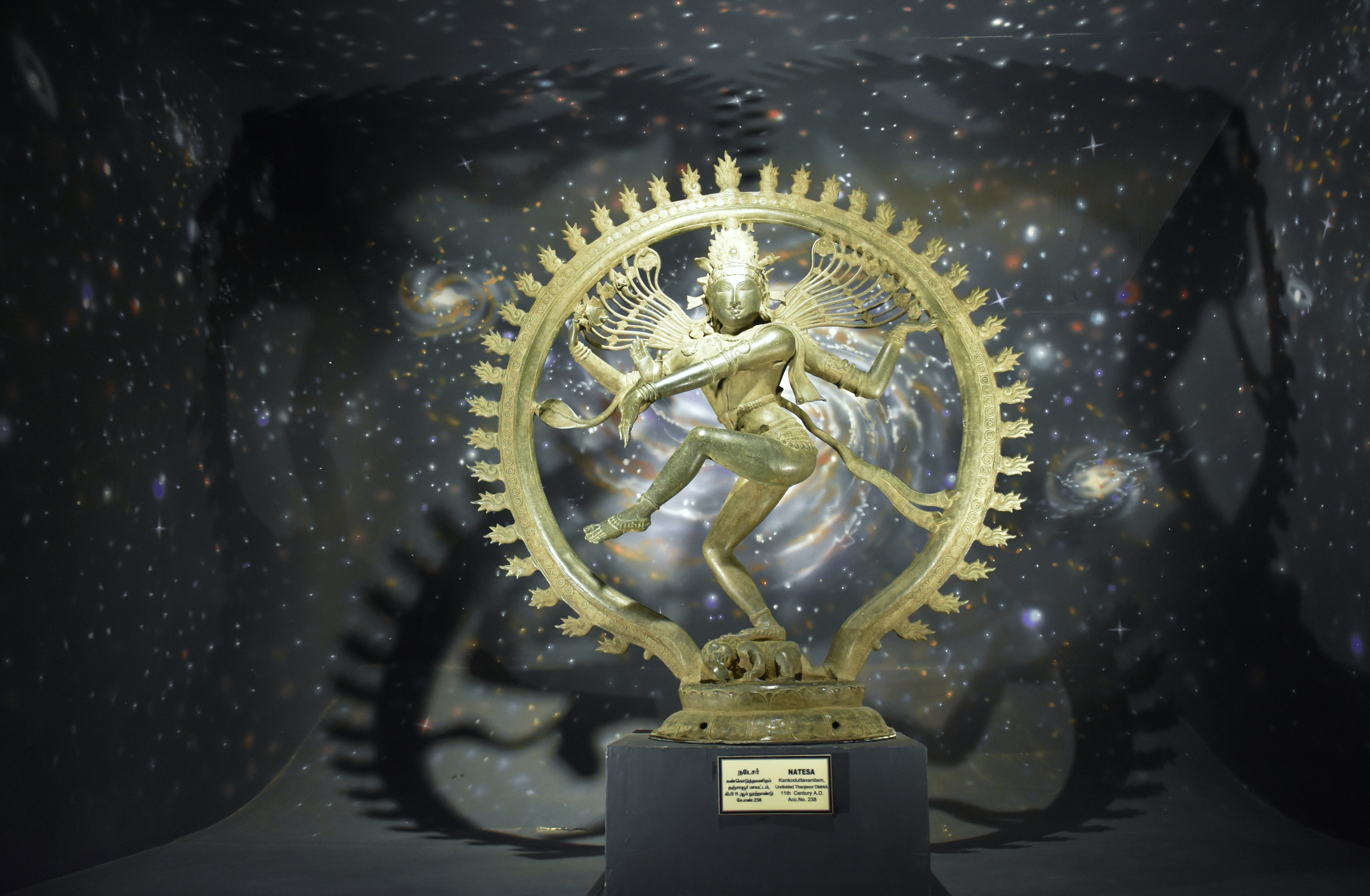 Nataraja is the dancing Shiva Lord of dance in Hinduism